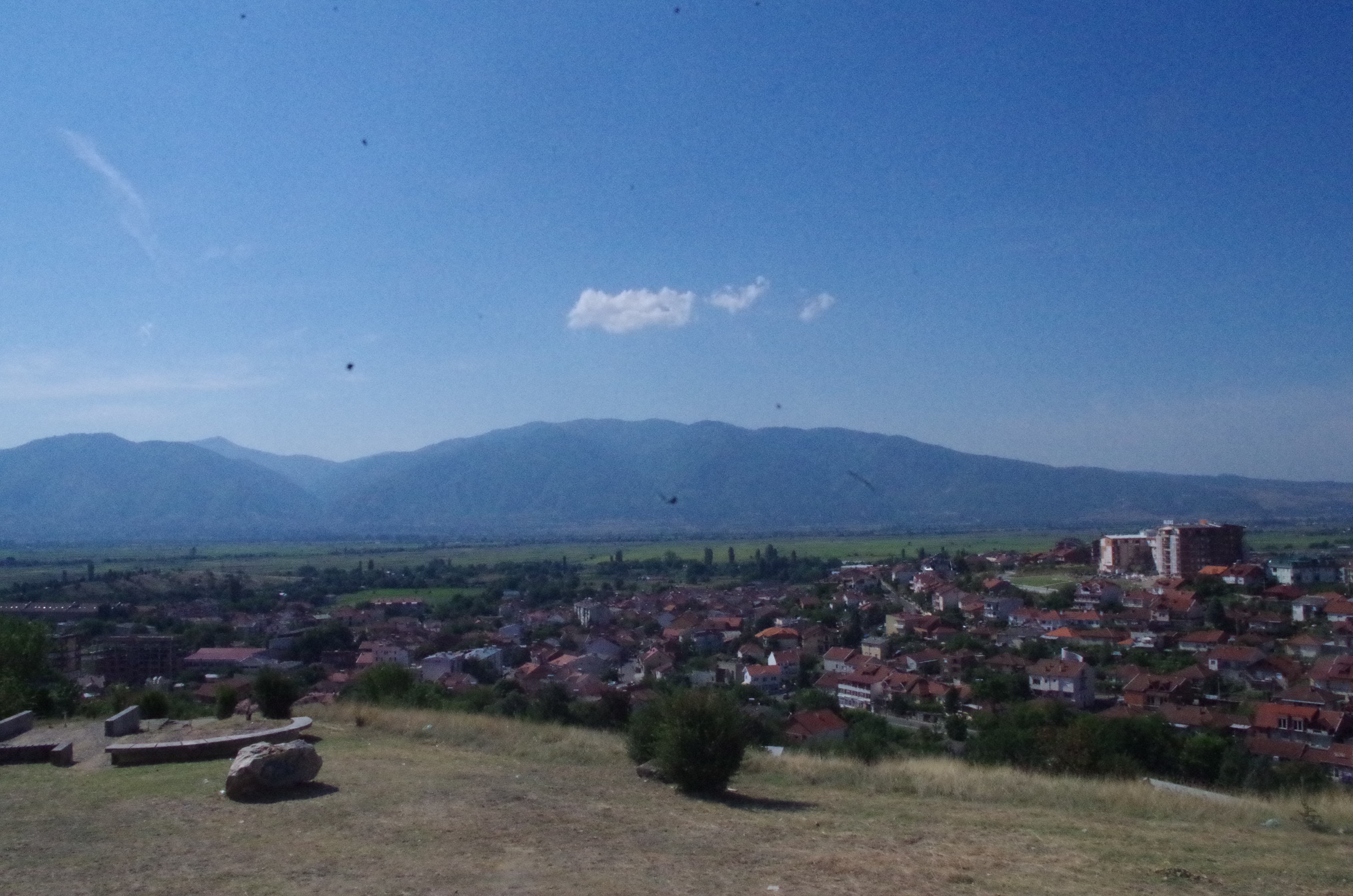 View of the western part of the town of Kochani, Macedonia